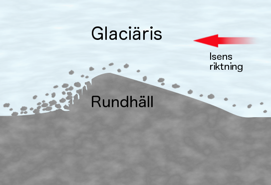 Roche moutonnée with swedish text